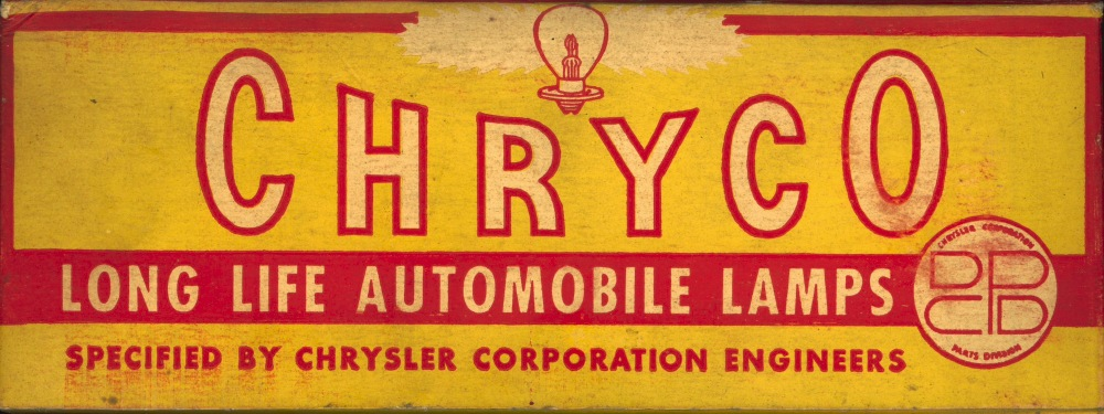 1948 Chrysler Corporation of Canada Ltd. bulb package face